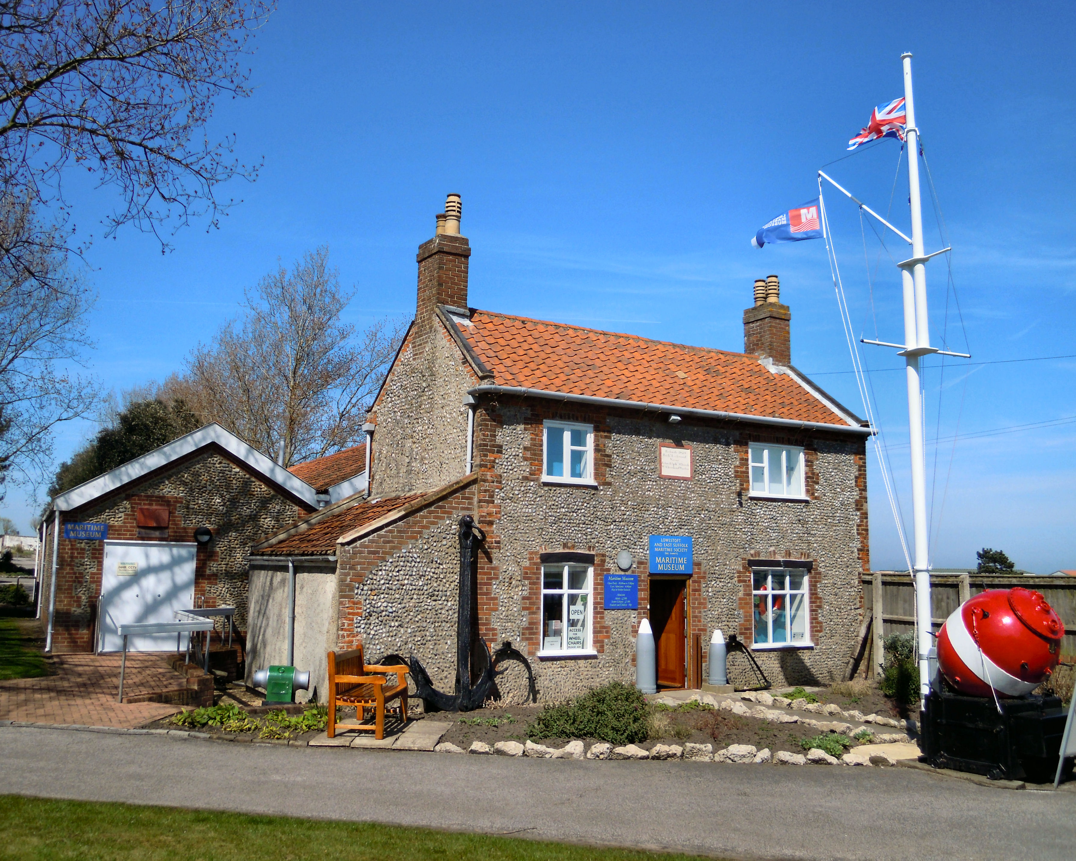 Lowestoft Maritime Museum in Lowestoft in Suffolk (More images)